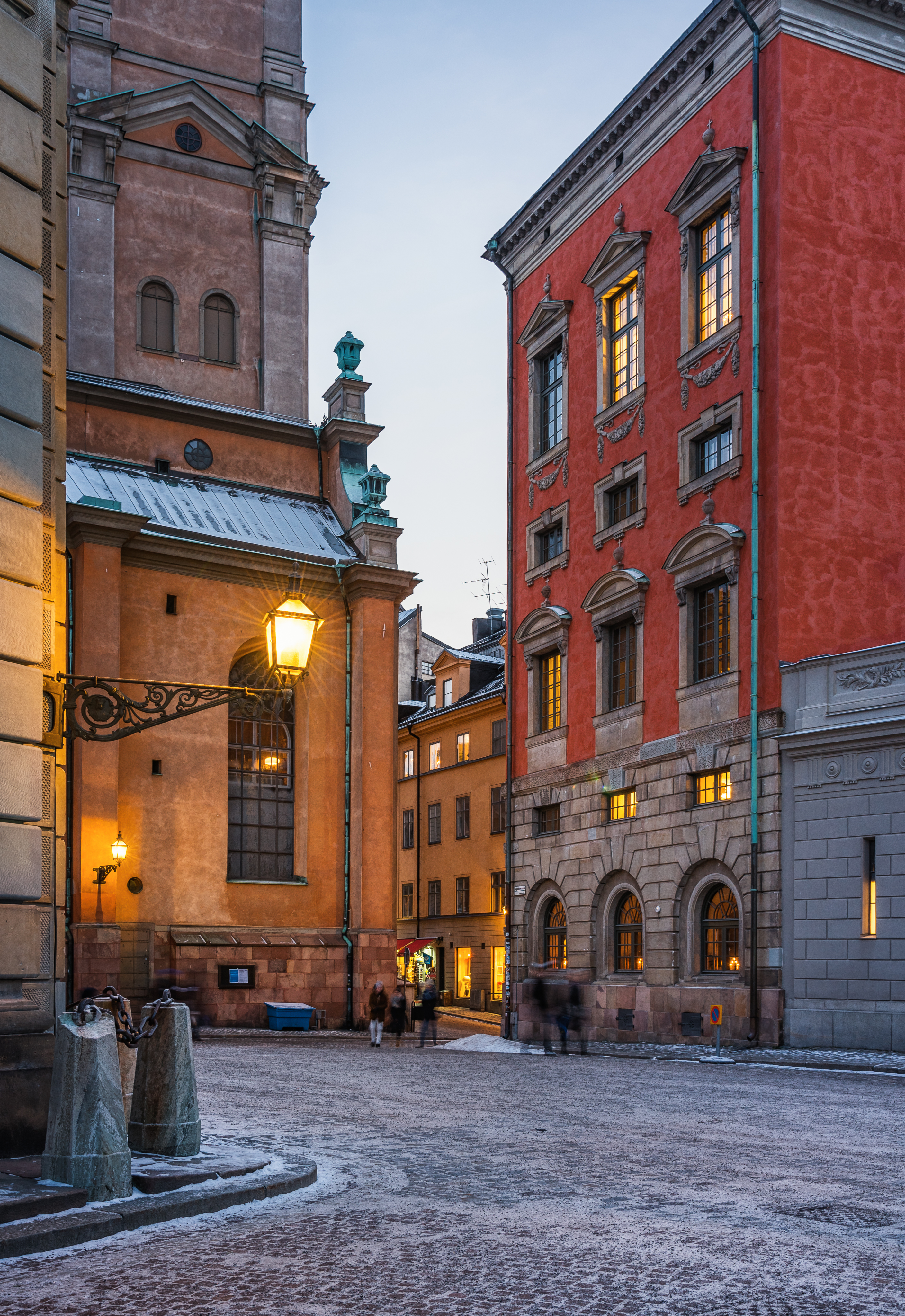 Axel Oxenstierna’s palace and city block Kvarteret Neptunus större, Stockholm, Sweden.